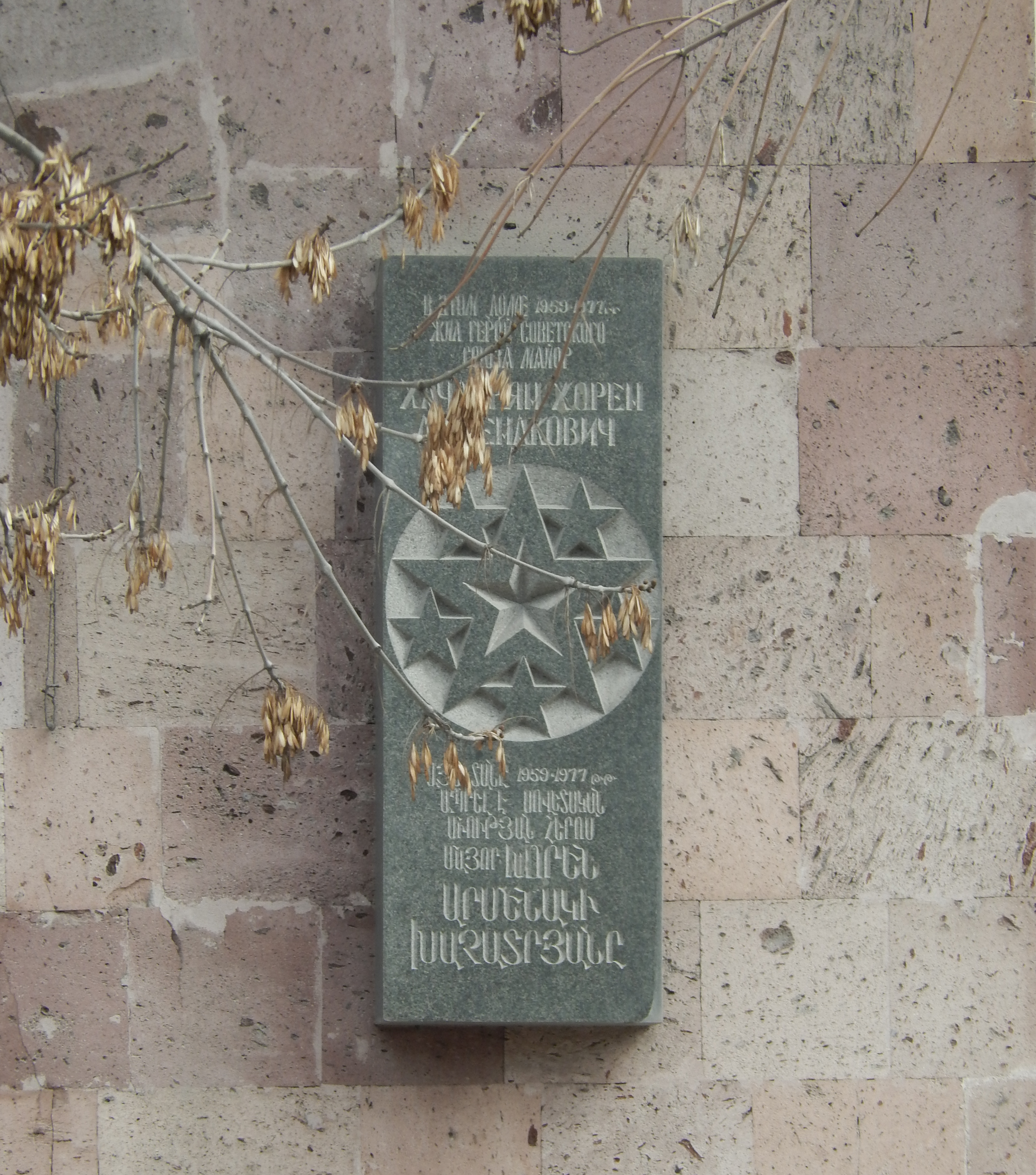 Khoren Khachatryan's plaque inYerevan